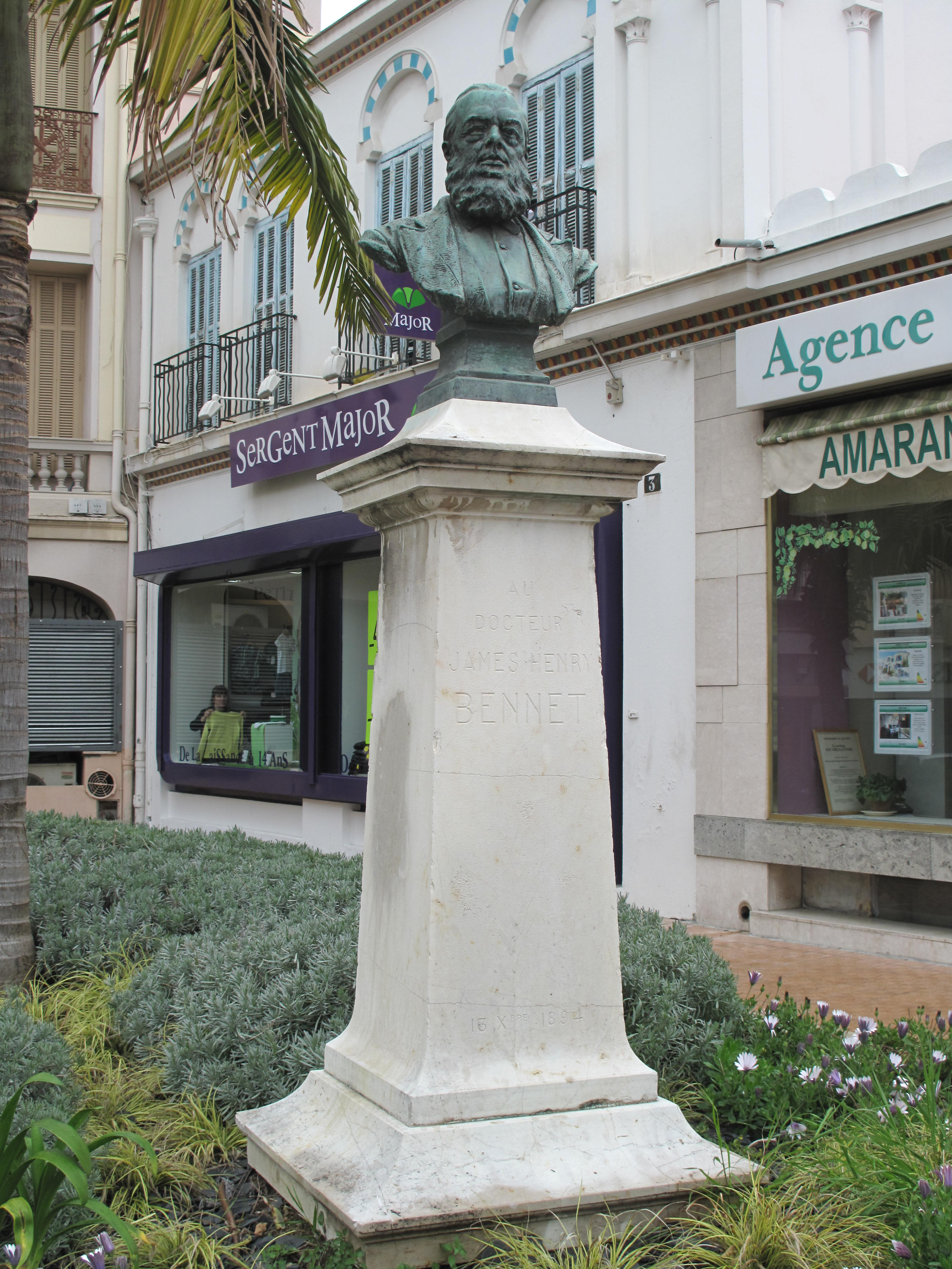 Bust of James Henry Bennet in Menton (Alpes-Maritimes, France).